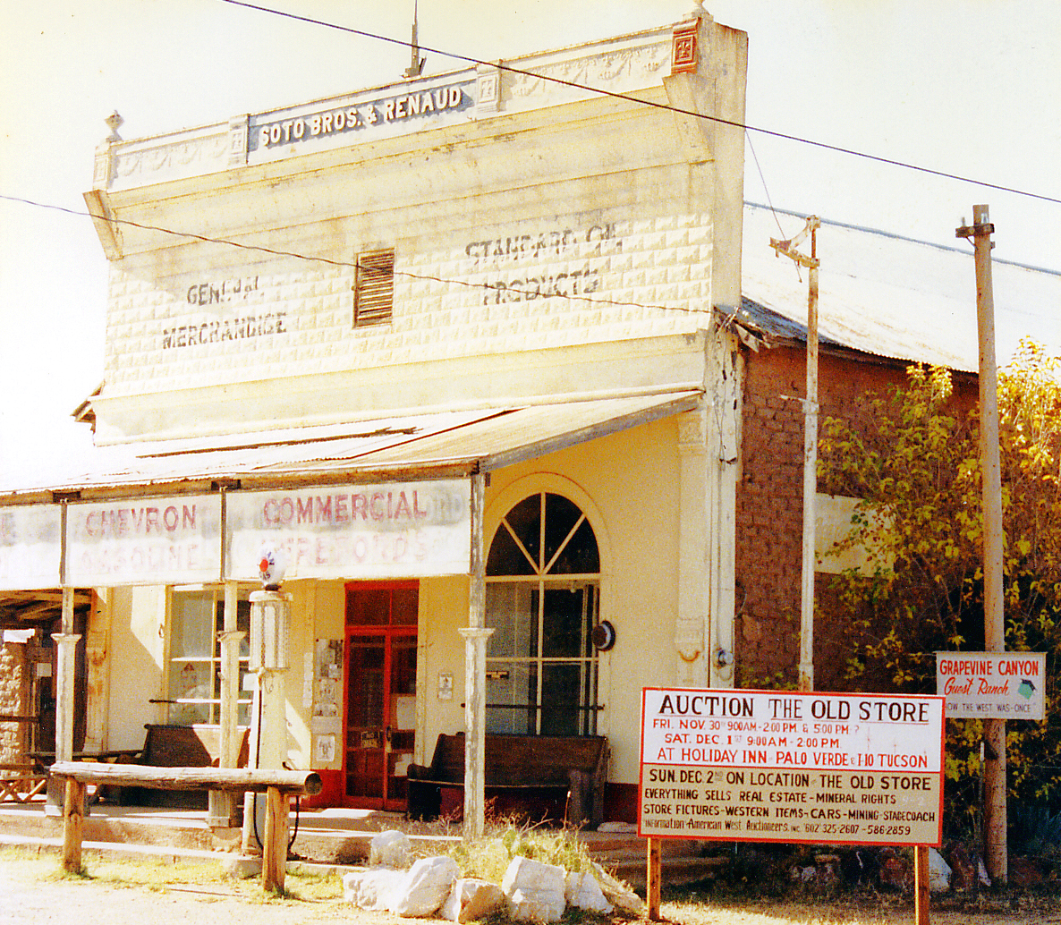 Old Pearce Mercantile, NRHP listed